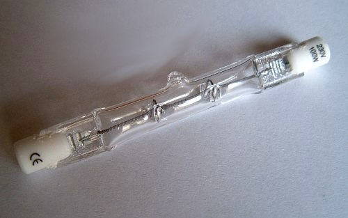 Bulb sockets R7s / J78; 230V, 100W, 2000h, 78mm.